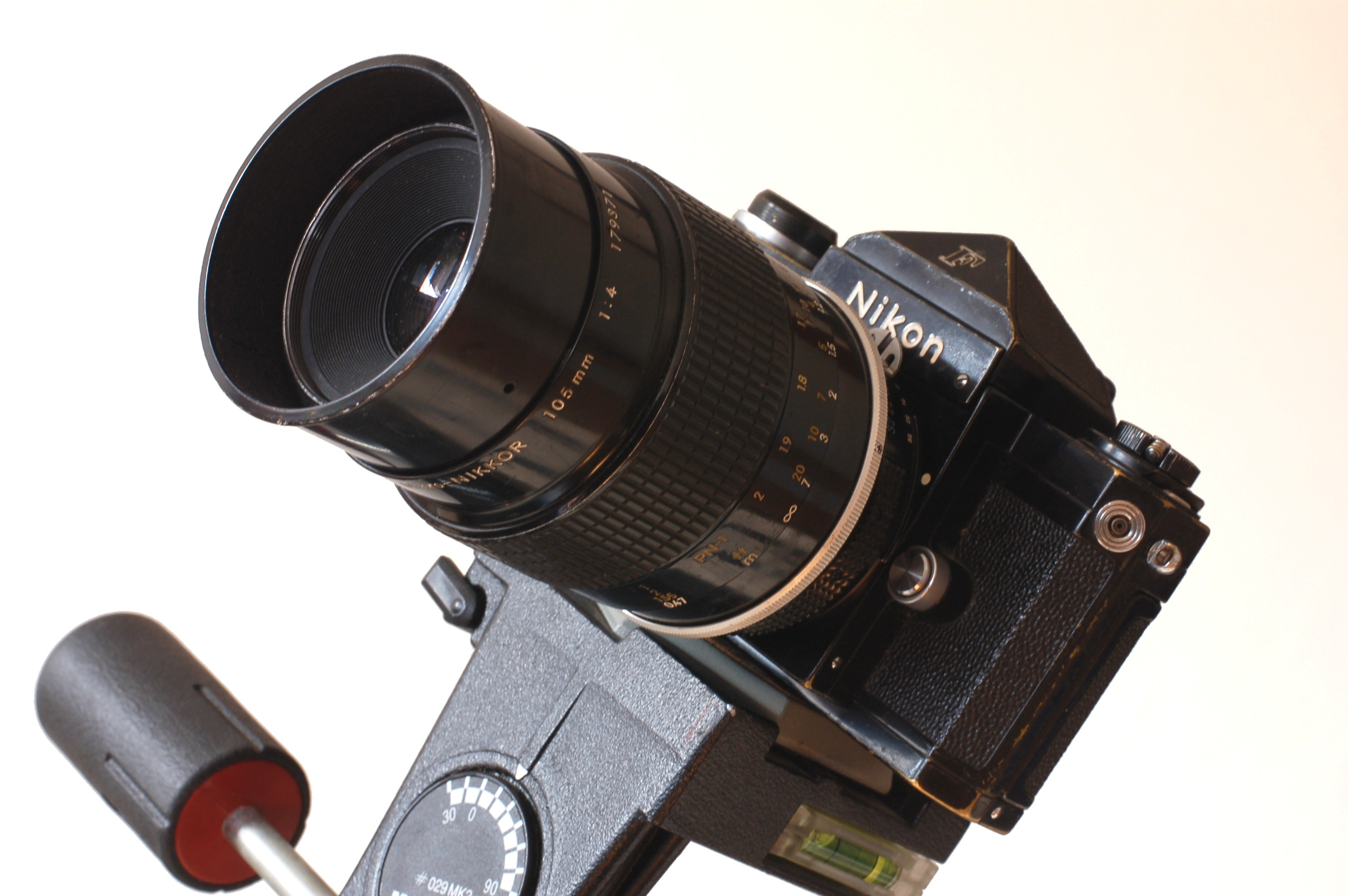 Nikon F, professional SLR of the 60'ies, with Micro Nikkor 105mm 1:4 mounted